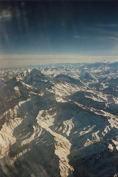 Flight over Aconcagua, Chila